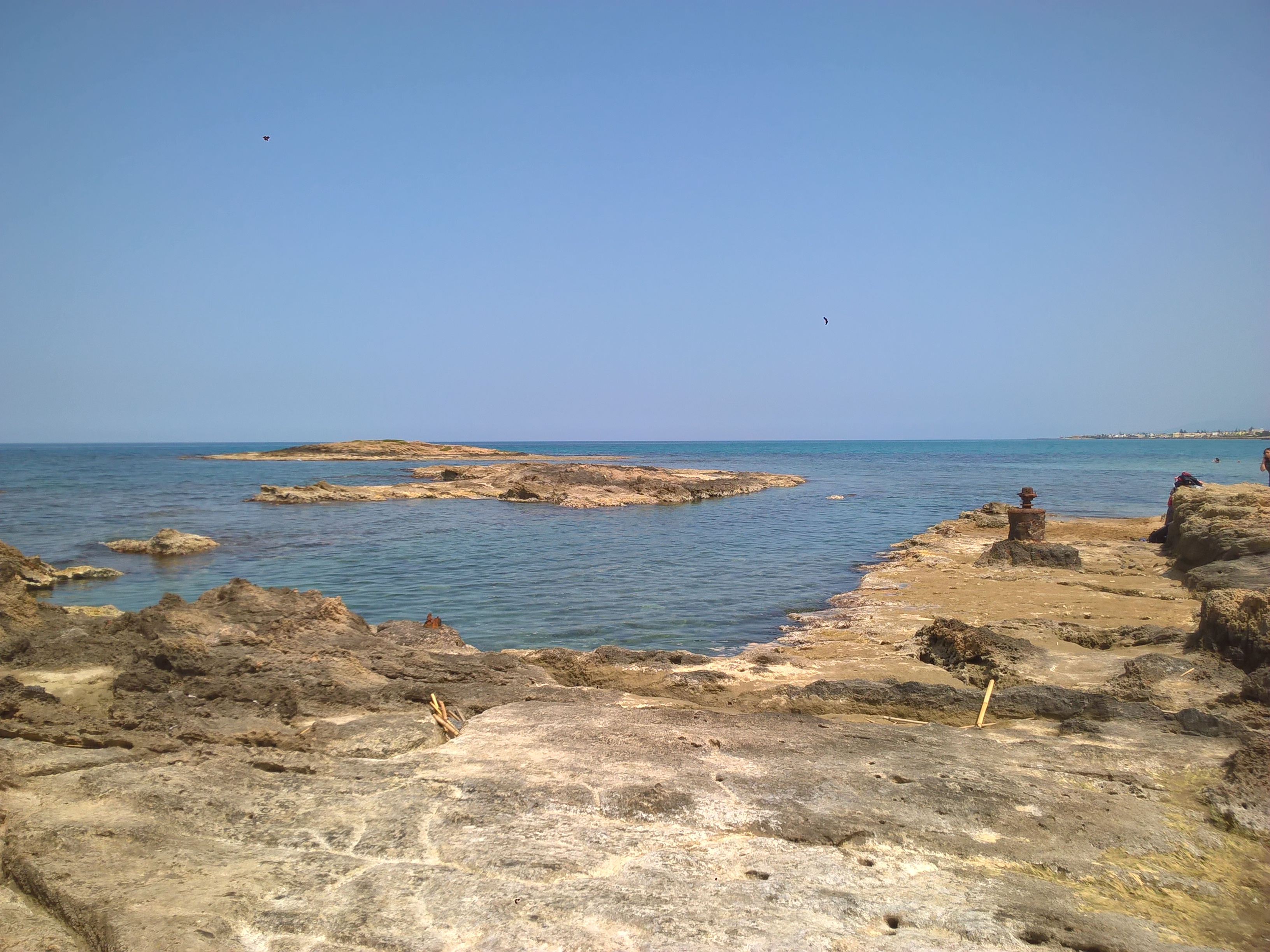 Agii Theodori minoan shipyard, 48m x 12m